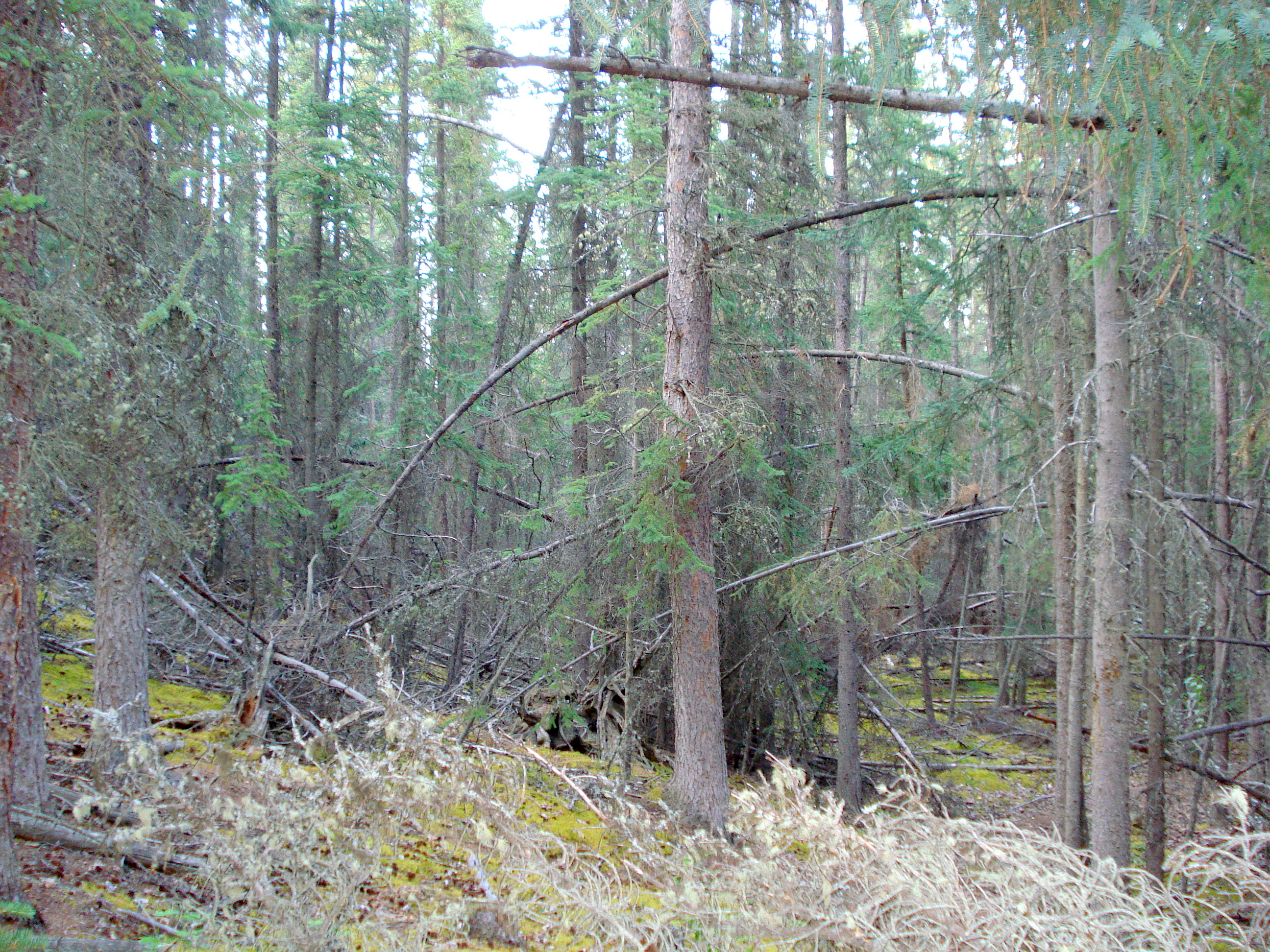 A photograph displaying the lower levels of an old-growth boreal forest composed of primarily White Spruce (Picea glauca)near Whitehorse, Yukon, Canada.